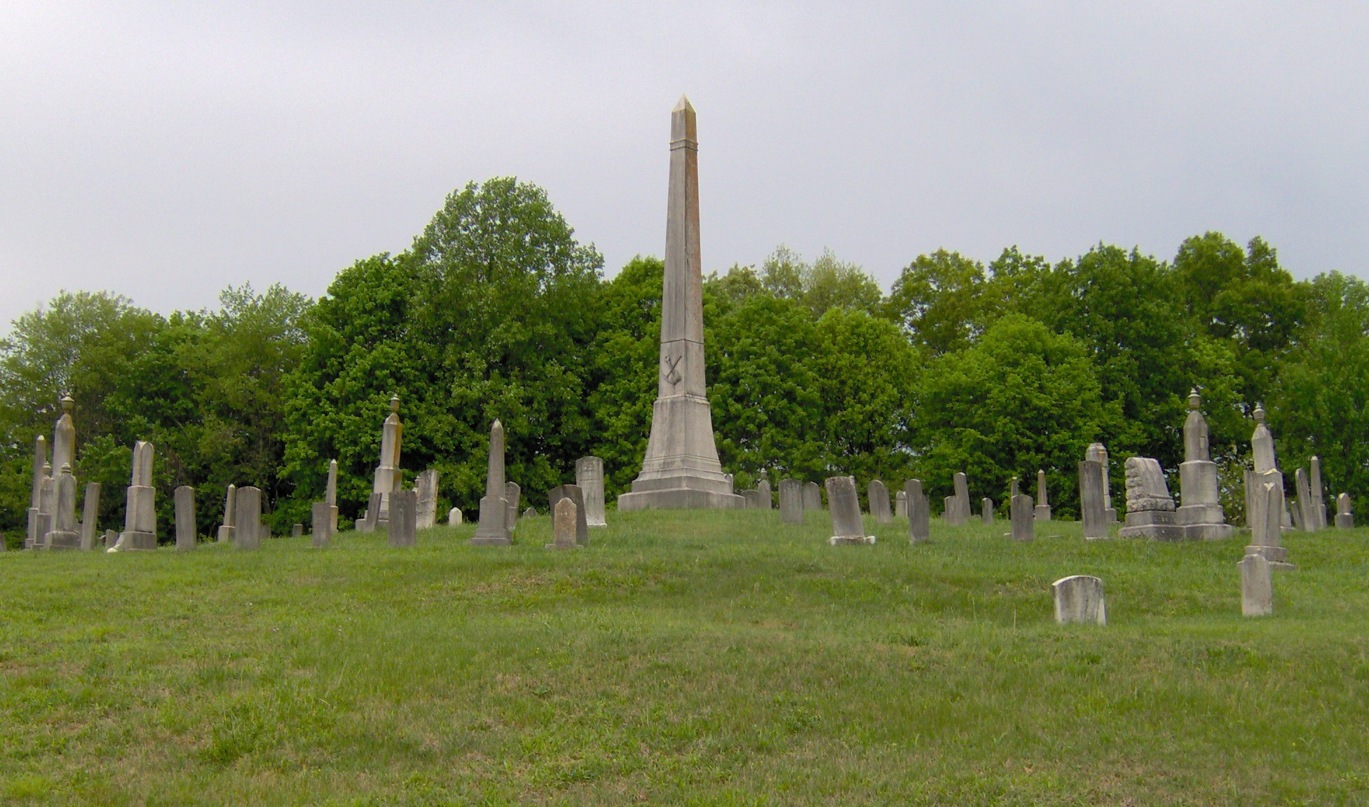 The Fraterville Miners' Circle at Leach Cemetery (behind Clear Branch Baptist Church) in Lake City, in the U.S. state of Tennessee. The circle contains the graves of 89 miners killed in the Fraterville Mine Disaster, which occurred opposite Walden Ridge in the community of Fraterville, on May 19, 1902. The explosion killed 216 miners, 184 of whom were identified. The names of these 184 miners are listed on the obelisk at the center of the circle. The circle was added to the U.S. National Register of Historic Places in 2005.